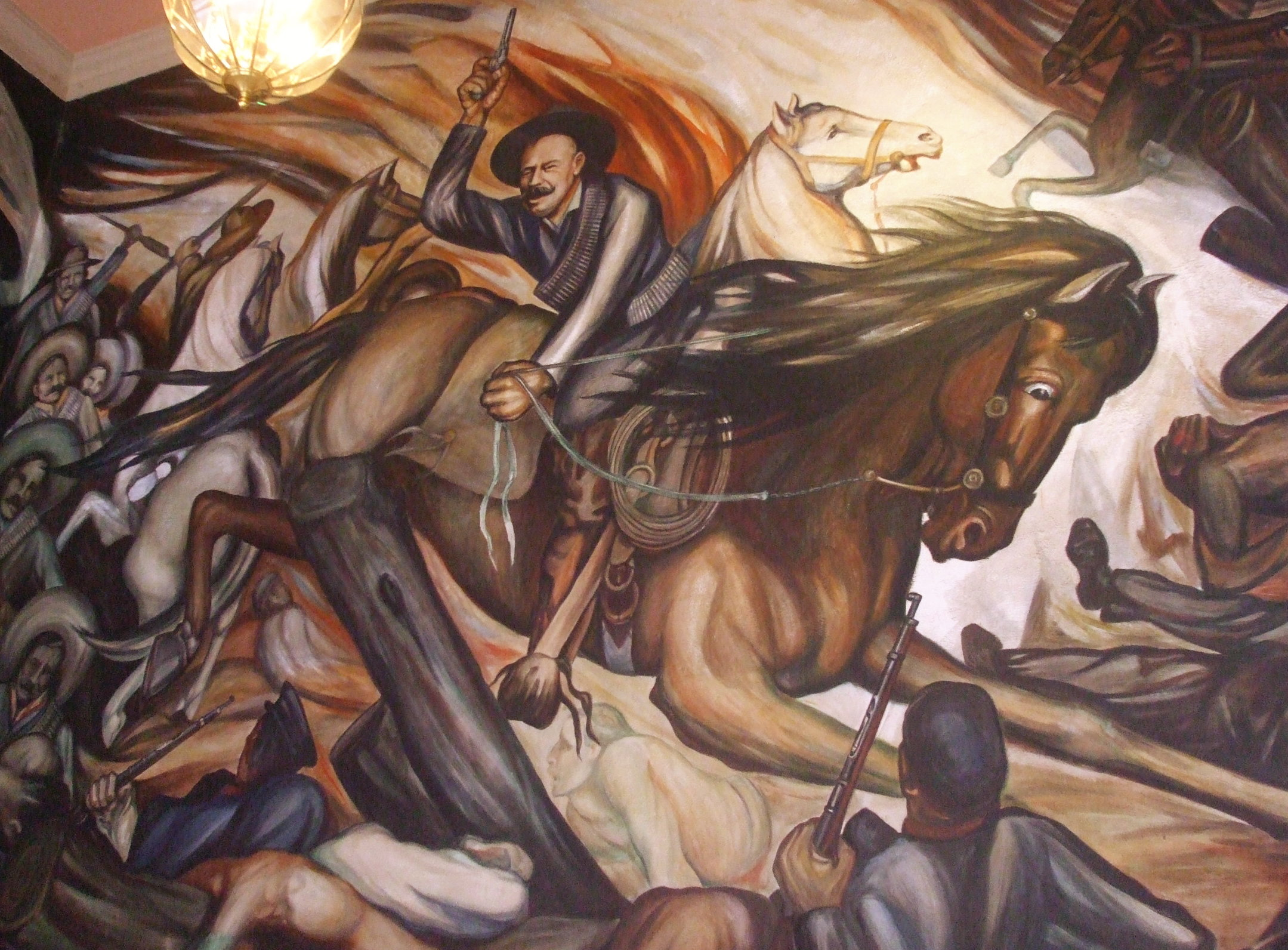 Panel of Piña Mora mural in Palacio del Gobierno showing Pancho Villa.